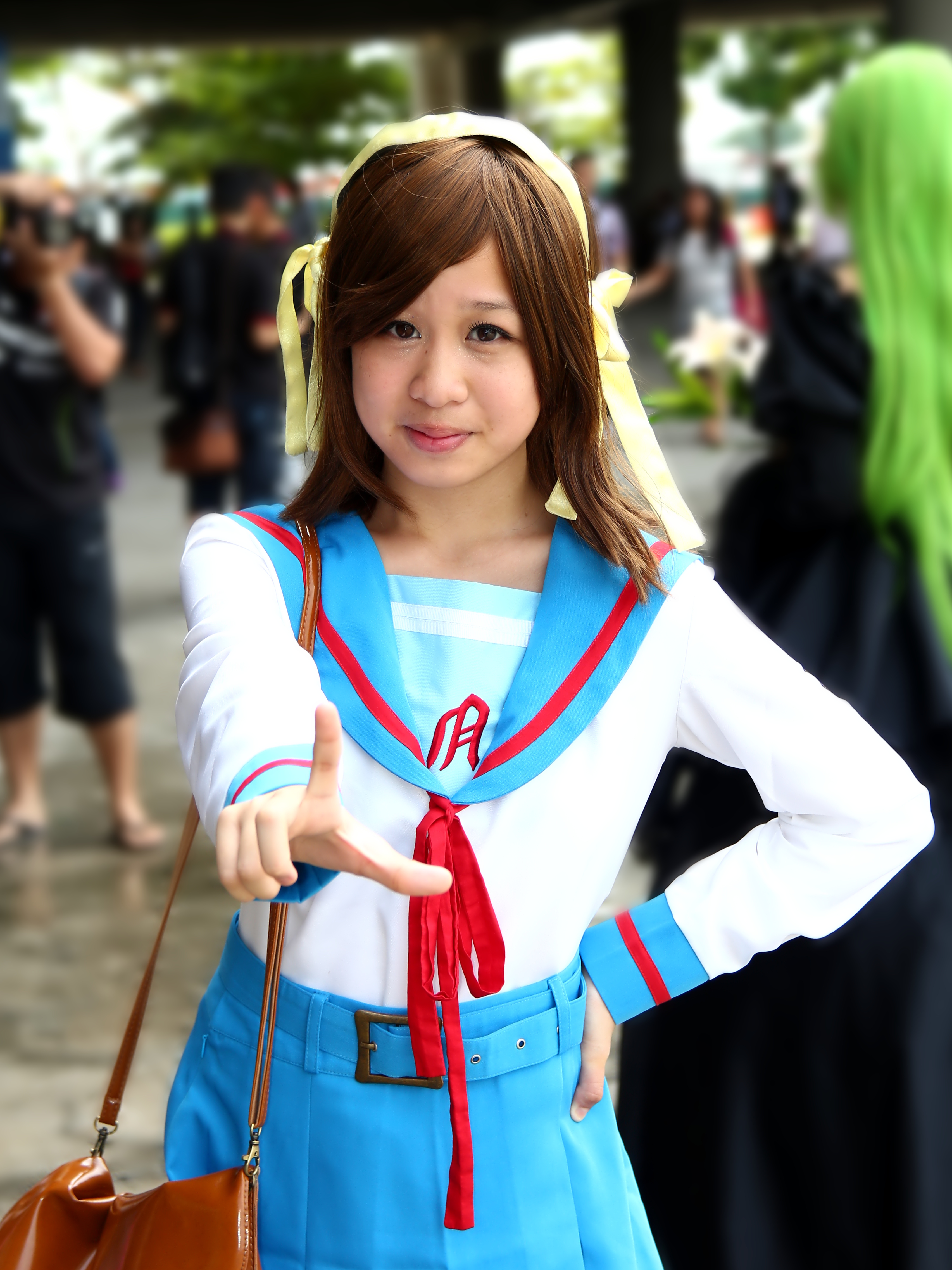 Cosplay of Haruhi Suzumiya from Haruhi Suzumiya at the EOY 2012 Cosplay Festival.